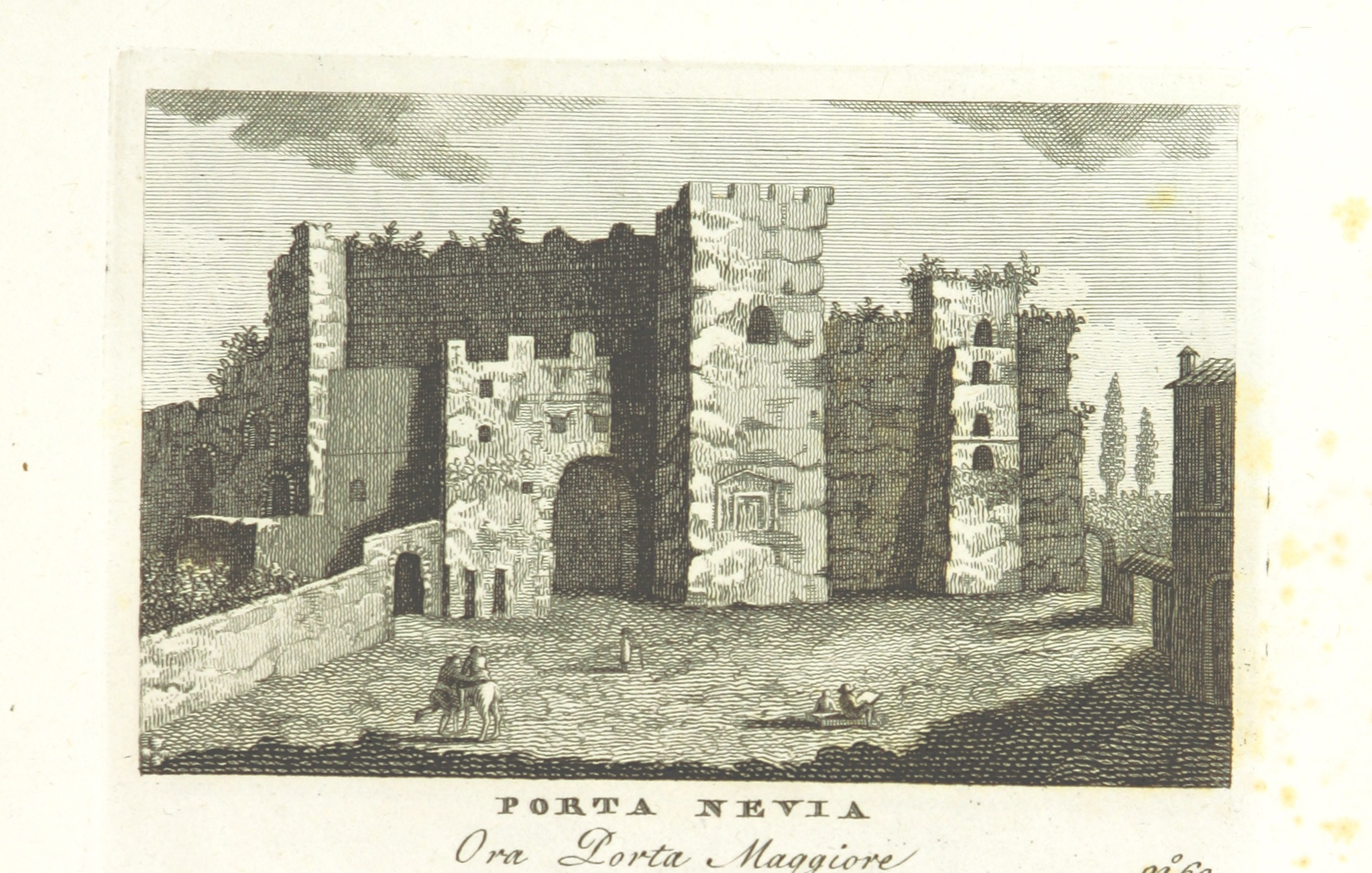 Title: "Vedute antiche e moderne le più interessanti della città di Roma, incise da vari autori, in numero 100. (Explication ... rédigée ... par E. Piale.)", "Appendix. Topography" Contributor: PIALE, Stefano. Author: Rome (Italy) Shelfmark: "British Library HMNTS 10131.h.1." Page: 91 Place of Publishing: Rome Date of Publishing: 1820 Publisher: V. Monaldini Issuance: monographic Identifier: 003147404